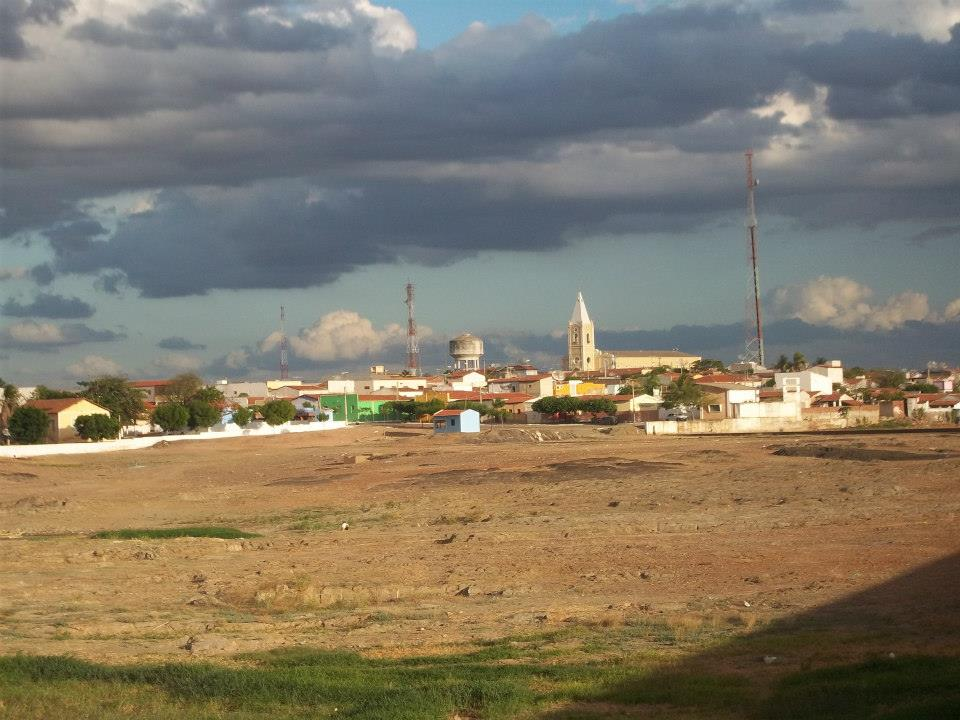 Cruzeta, Rio Grande do Norte, Brazil skyline